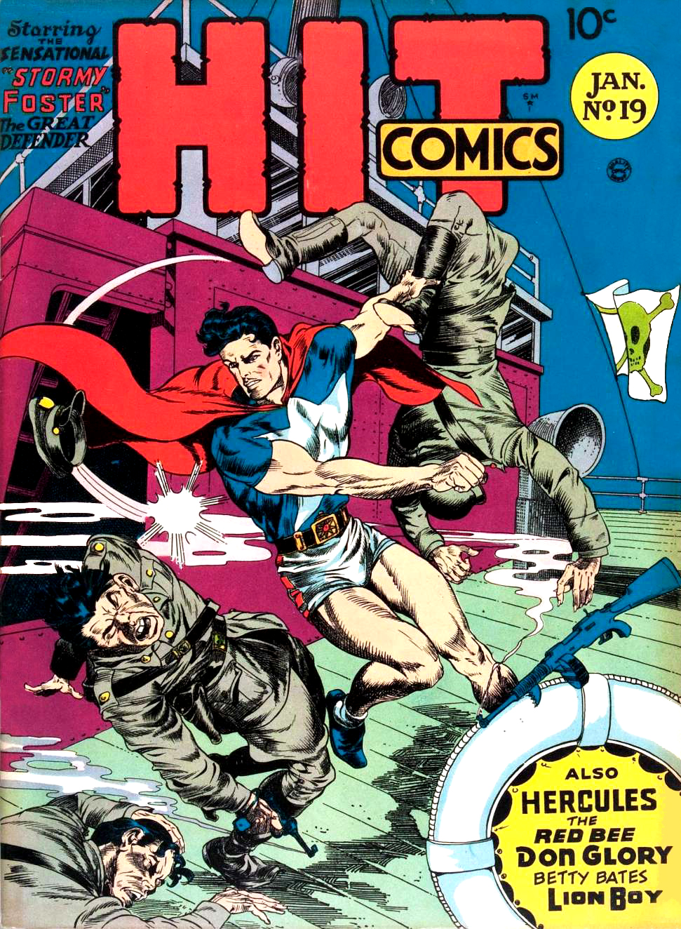 The "Sensational Stormy Foster" takes down a boatload of jack-booted thugs on the cover of Hit Comics number 19. The Great Defender would enjoy star billing until issue 25, when Kid Eternity made his debut.